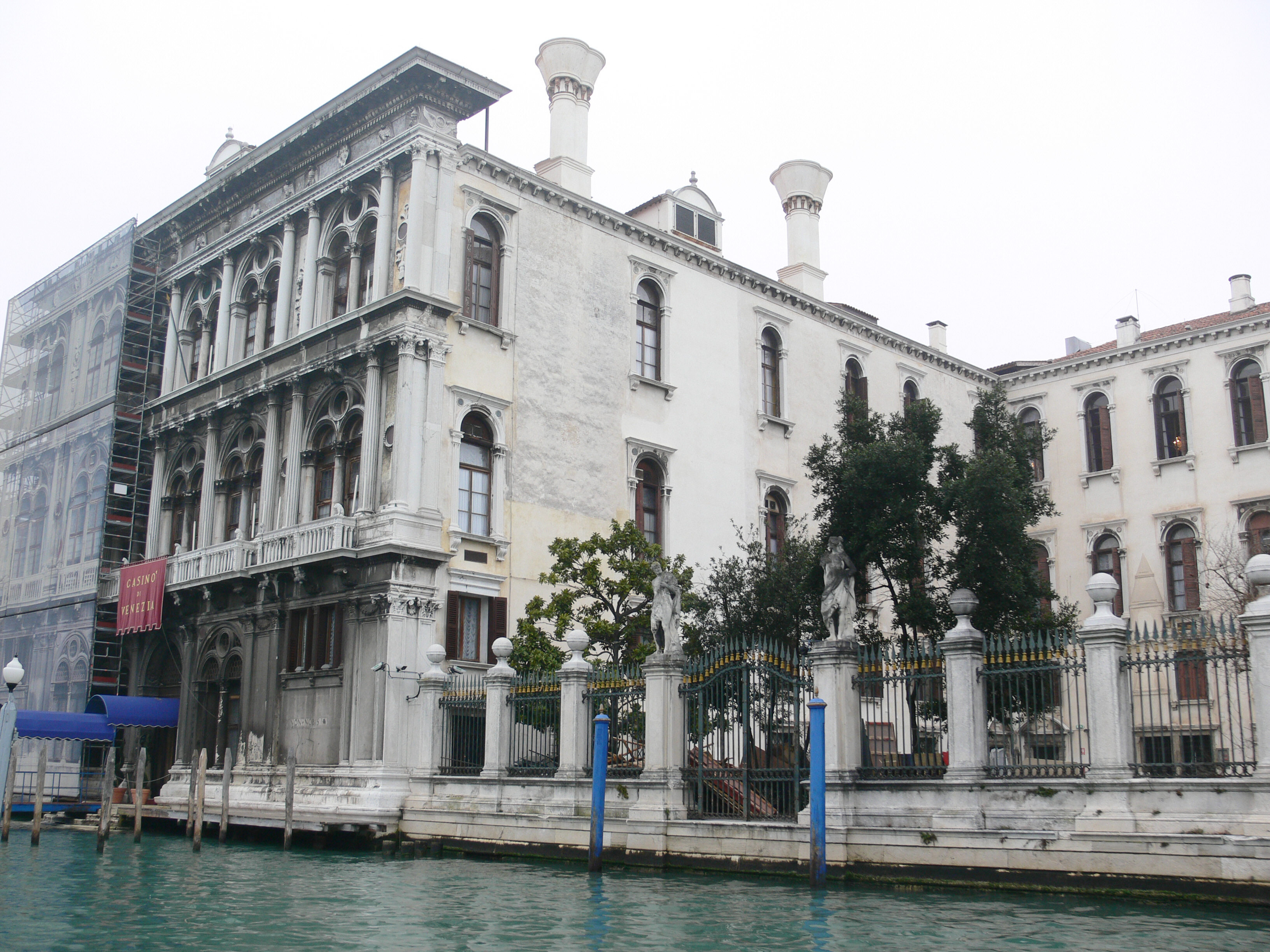 Palazzo Vendramin Calergi, in Venice, being refurbished.